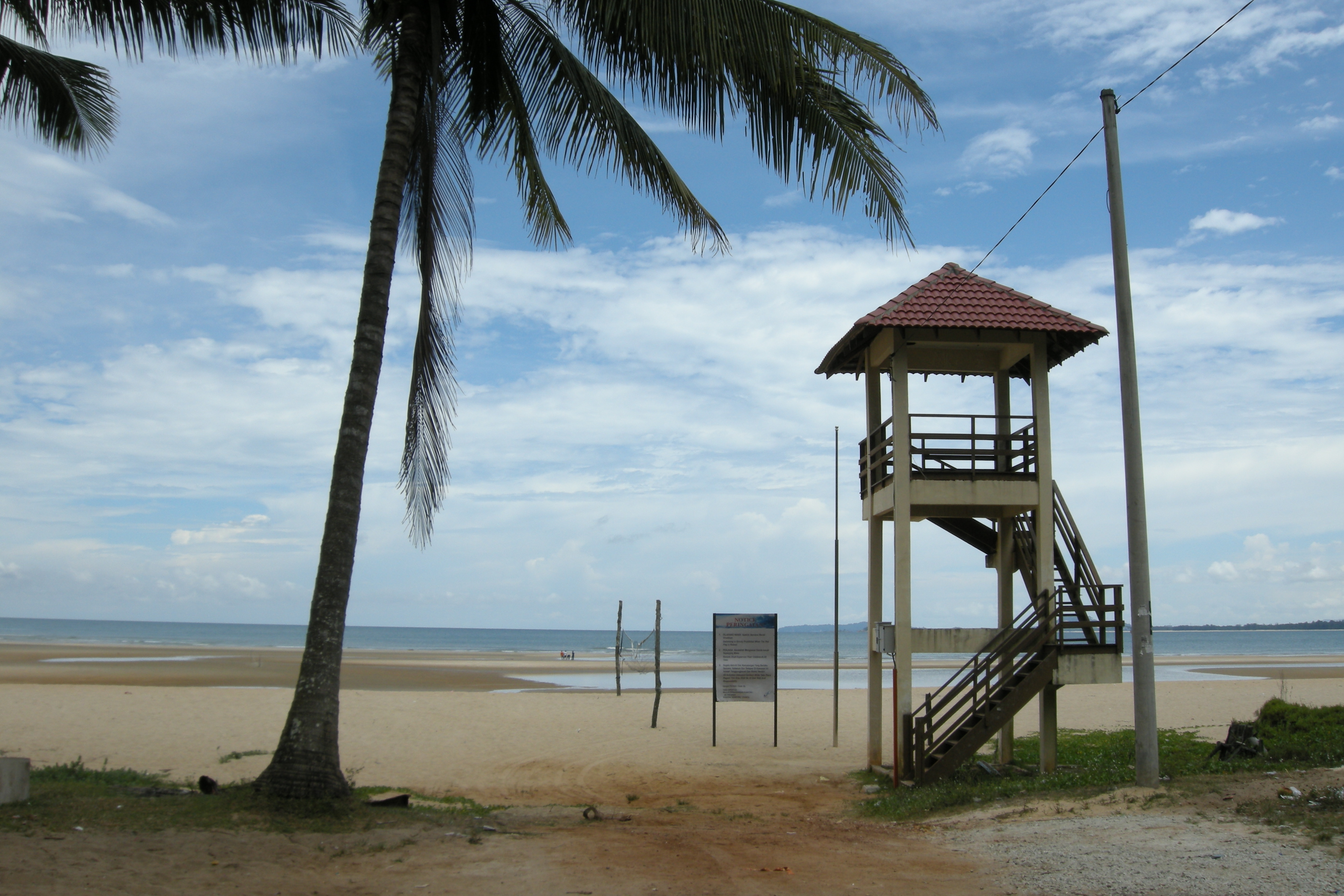 Cherating, Pahang, Malaysia. Bay facing the South China Sea with the fishing village inland.